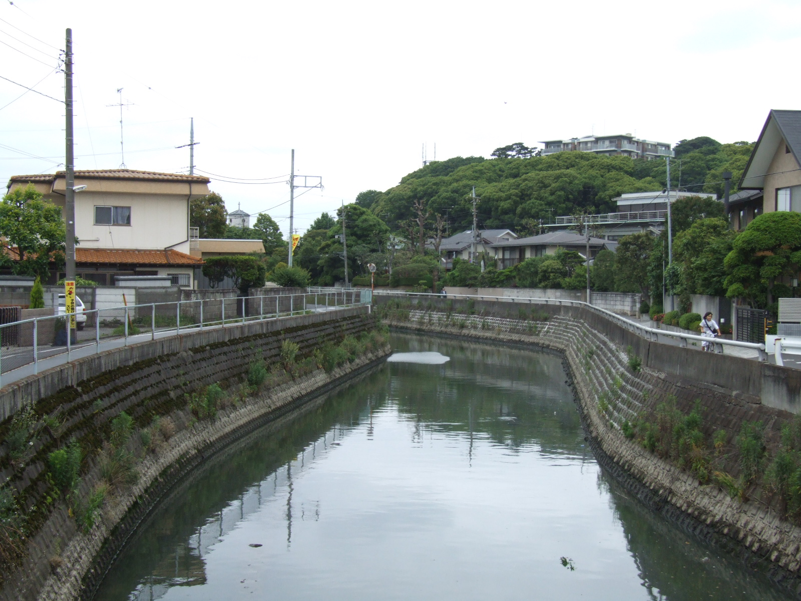 Mama River. Ichikawa, Chiba prefecture, Japan.